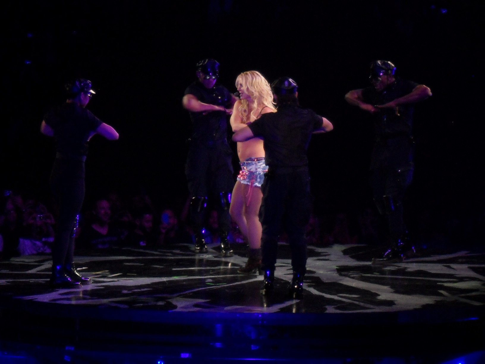 Spears